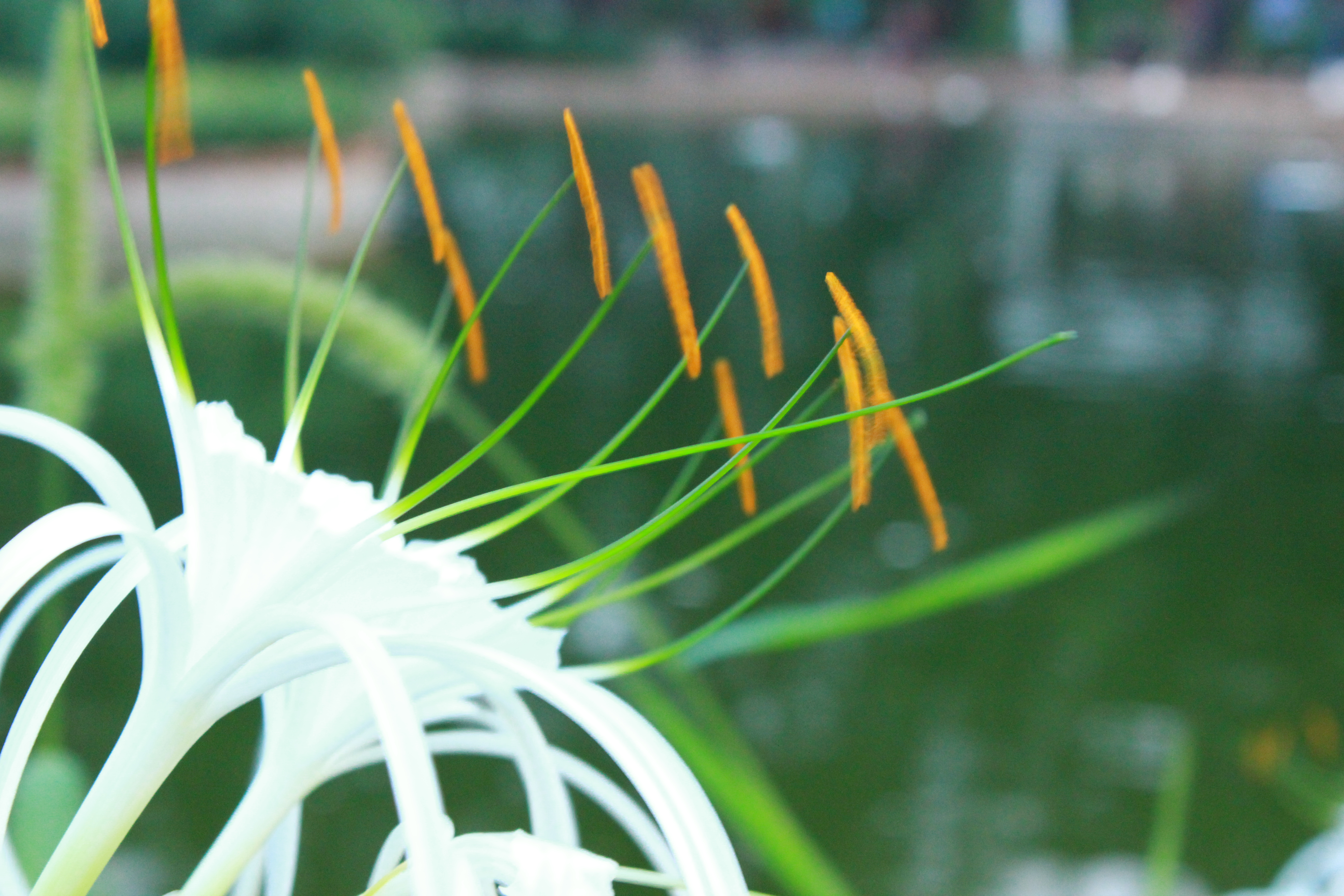 Photograph of a flower taken at Semmozhi poonga